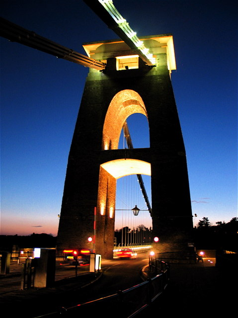 Clifton Suspension Bridge at night Looking across to Clifton